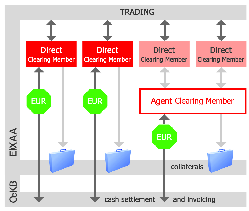 Clearing and Settlement at the EXAA electricity Spot Market